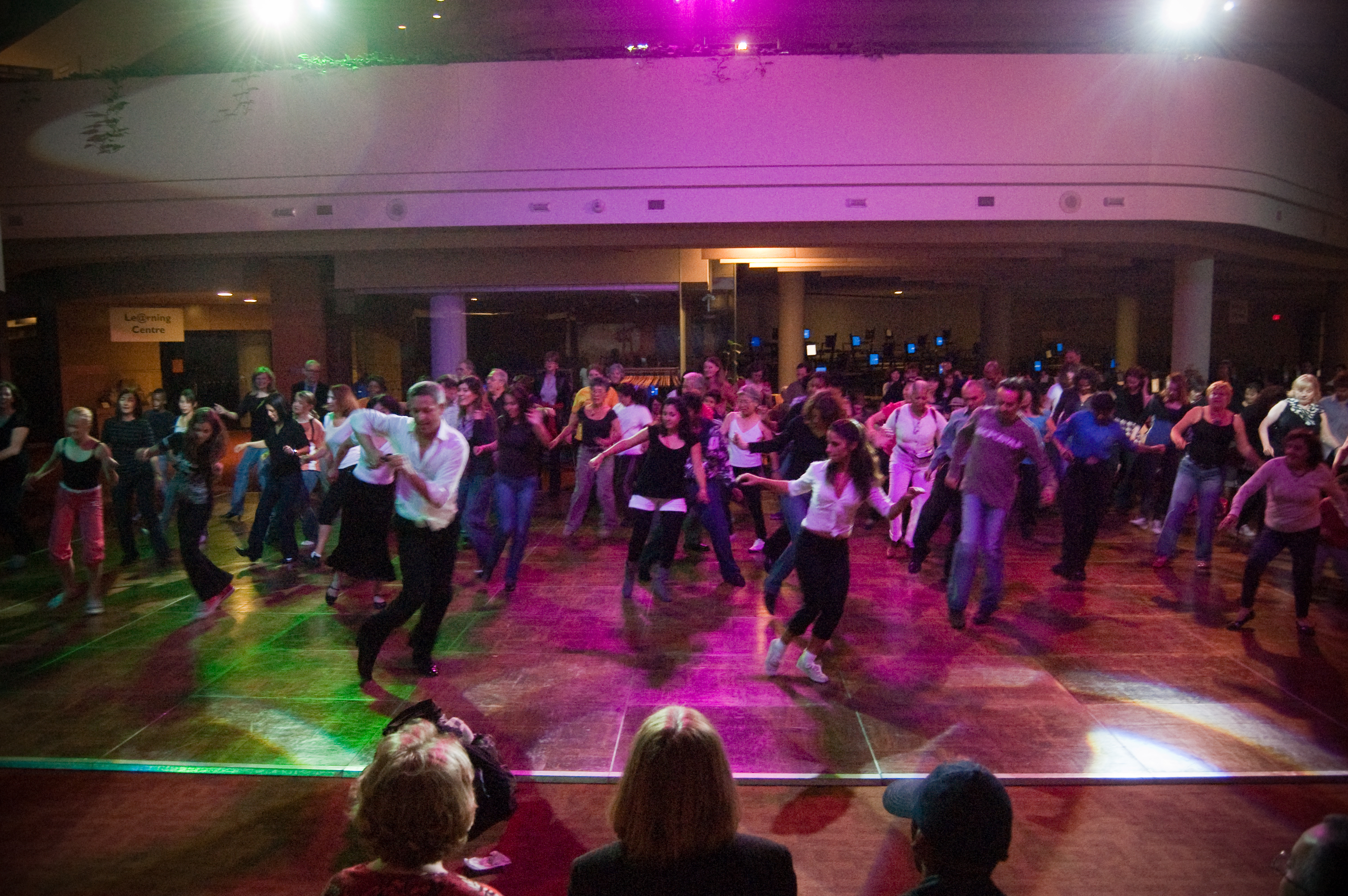 Dance Dance Evolution at the Toronto Reference Library. Nuit Blanche in Toronto, Canada.